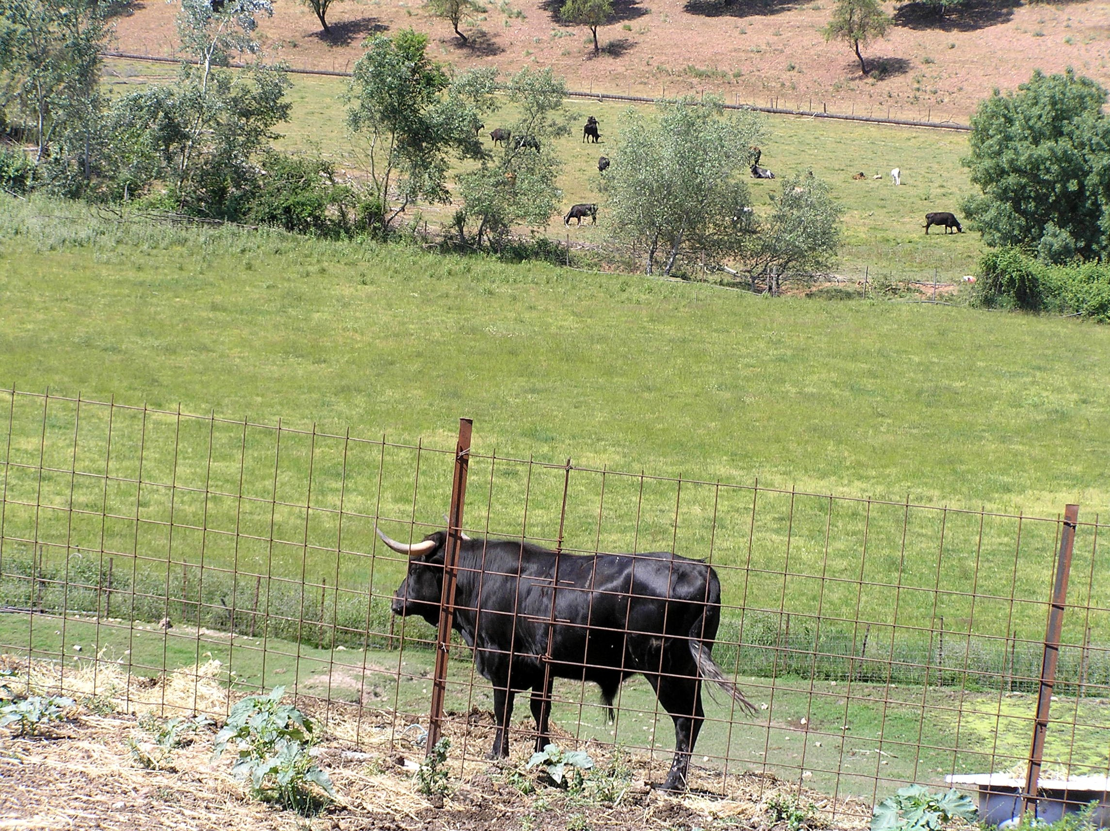 Ganadería en la Veguilla